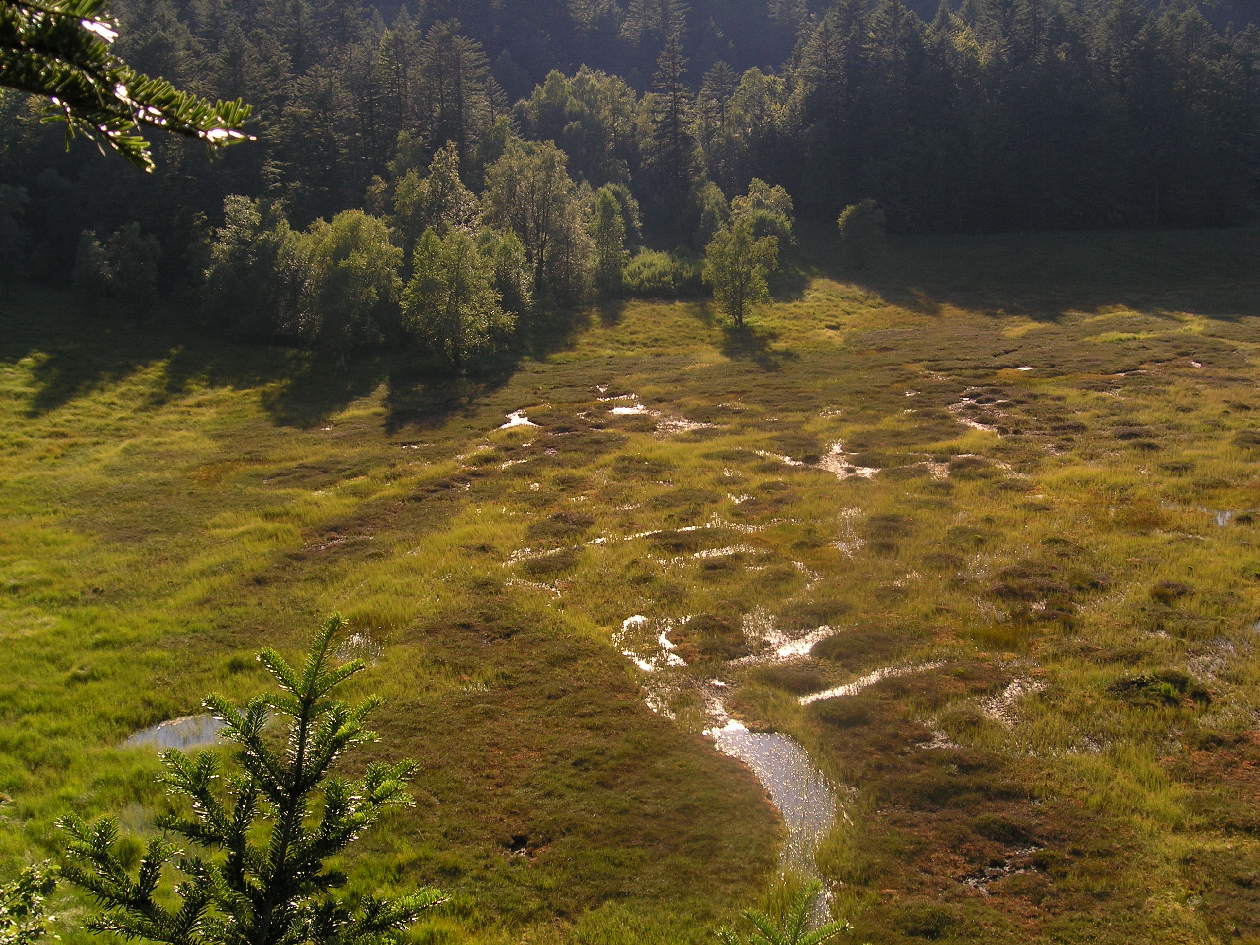 Quagmire by Machais - Highest Vosges mountains, France